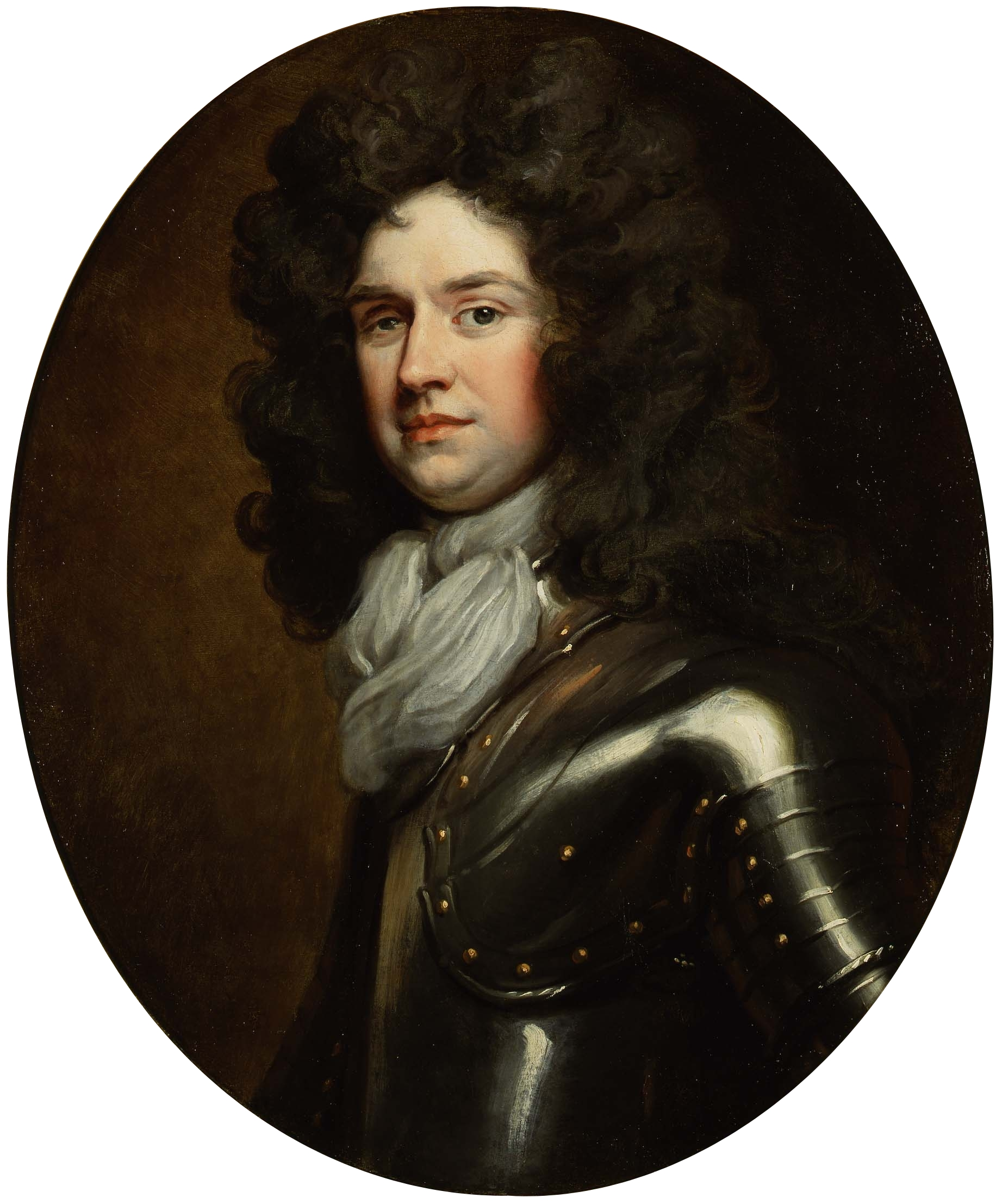 David Colyear, 1st Earl of Portmore (circa 1656-1730)